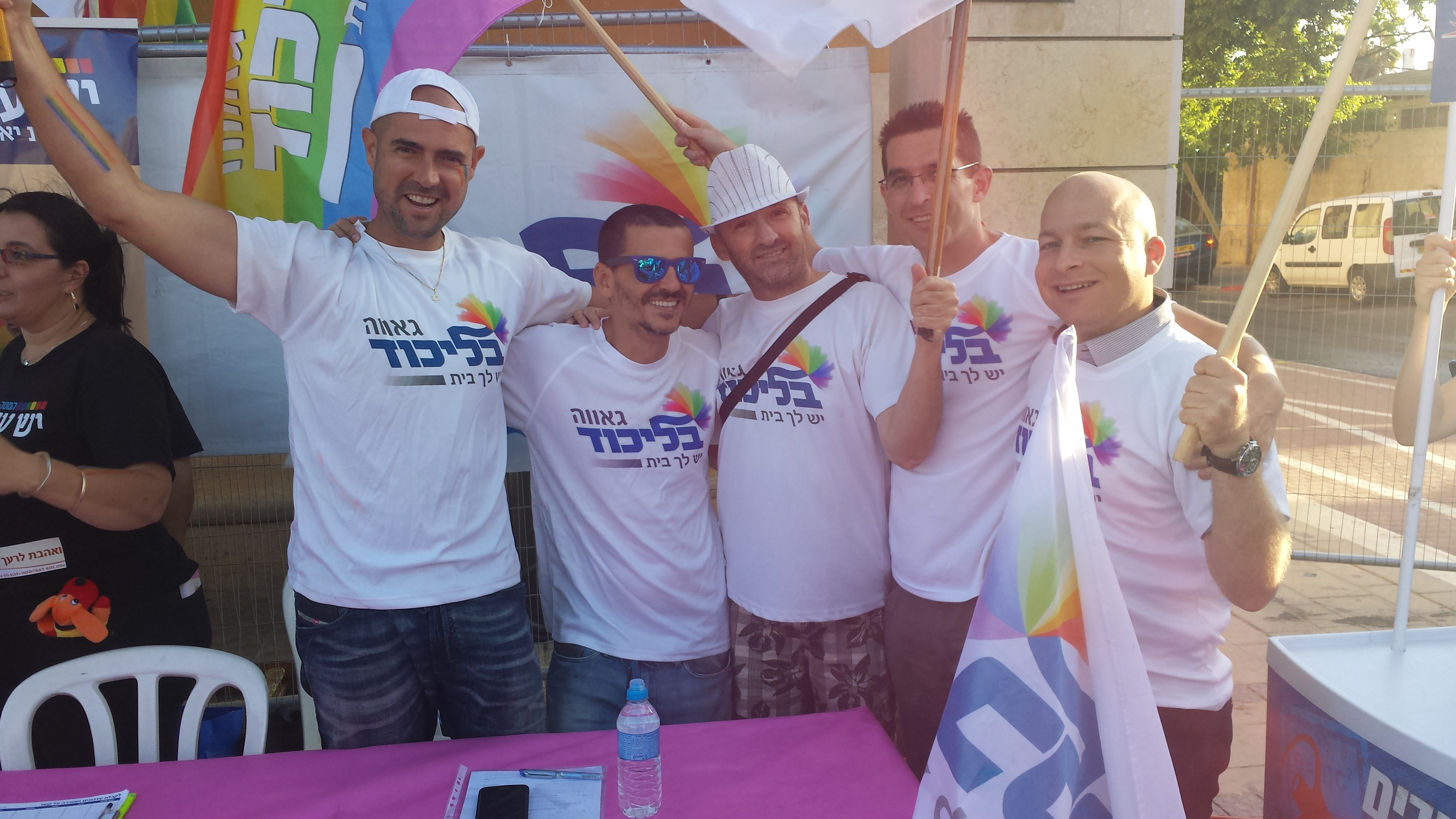 Amir Ohana (Left) fifth Pride event in Be'er Sheva, 2015